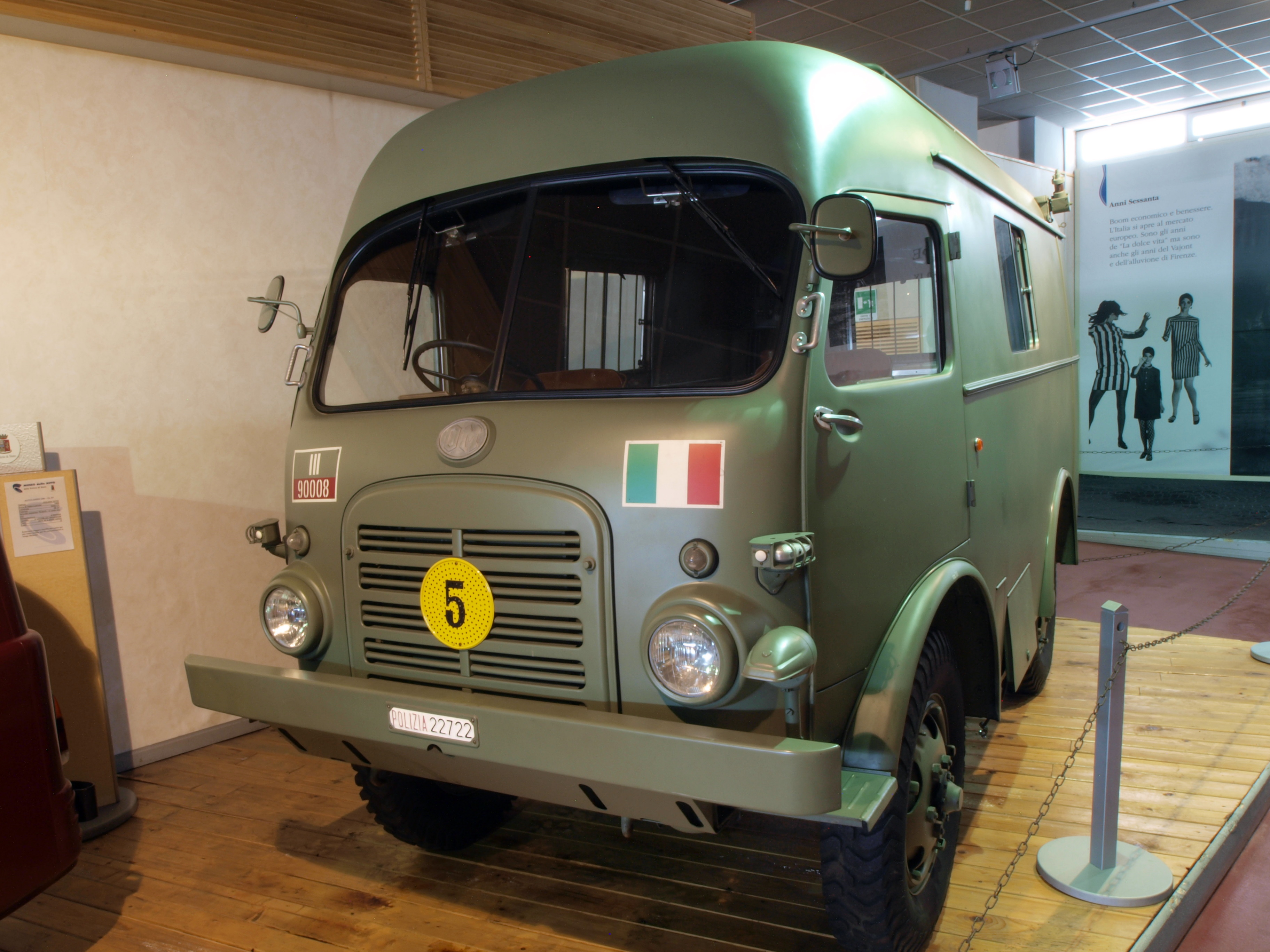 Photographed at Rome, Italy.